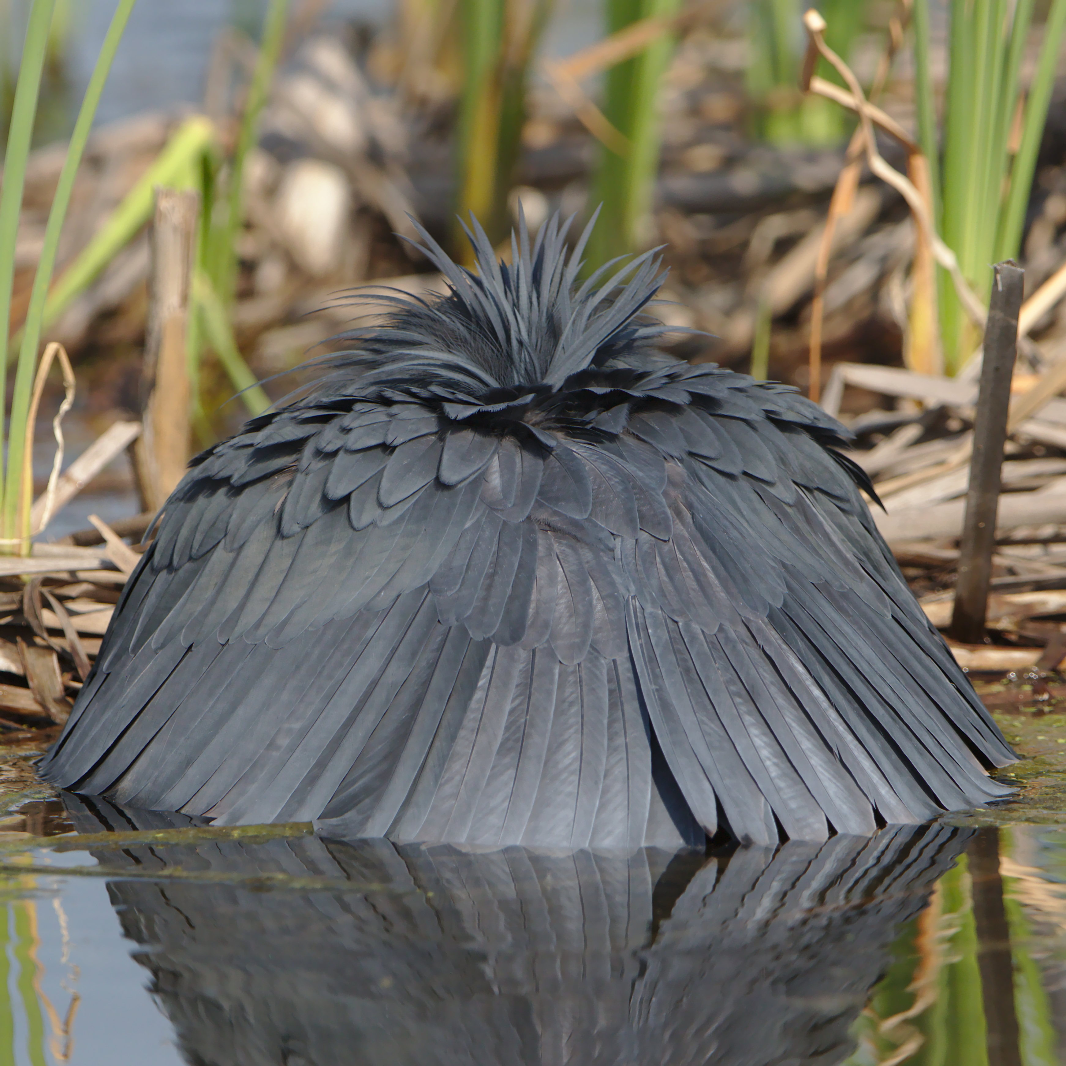 Black heron, Egretta ardesiaca, at Marievale Nature Reserve, Gauteng, South Africa.